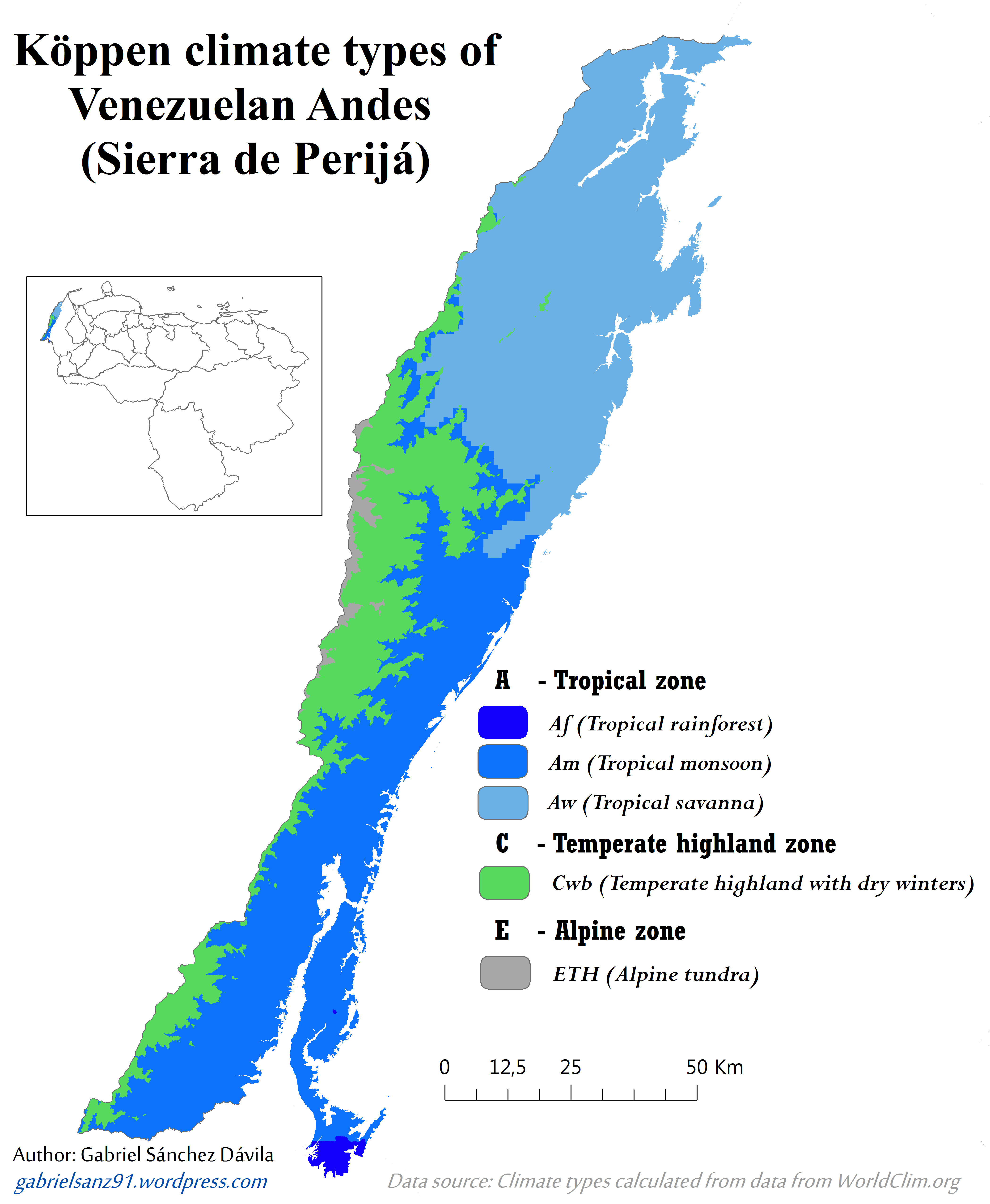 Köppen climate types of Sierra de Perijá (Venezuelan Andes)